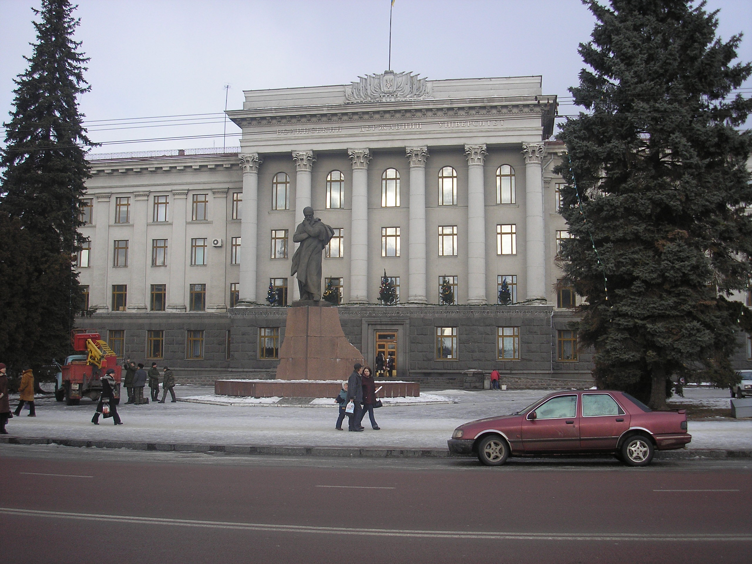 University in Lutsk